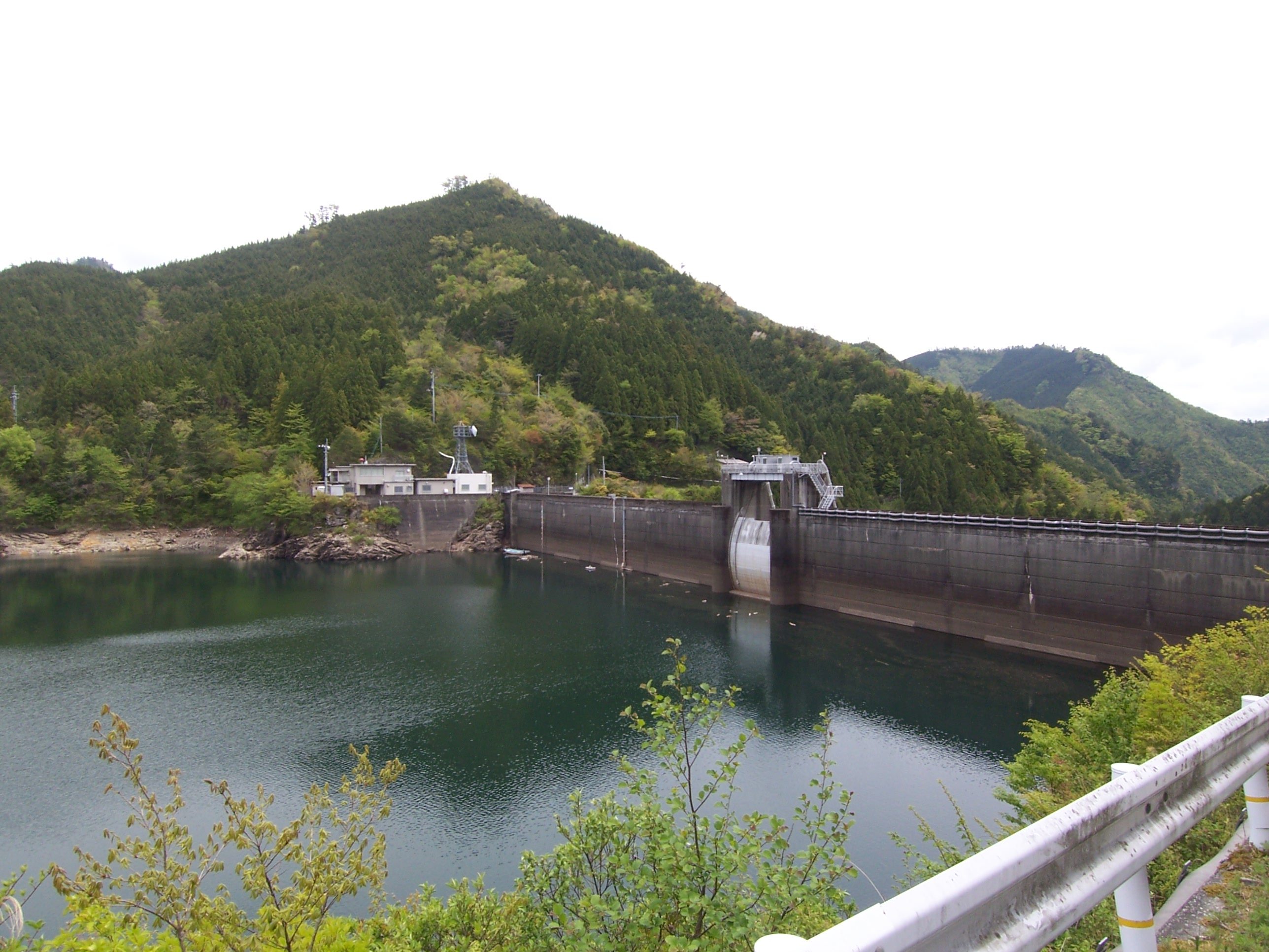 Ohmorigawa dam